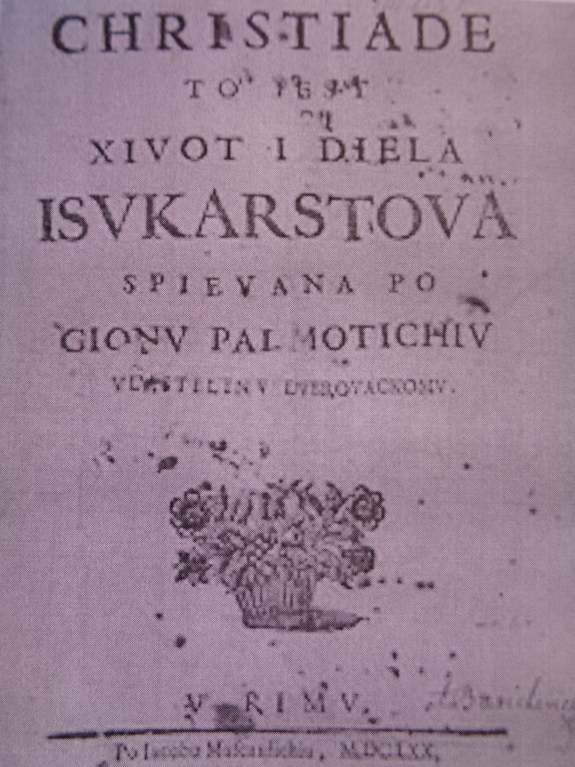 Junije Palmotić: "Christiade or life and activities of Jesus Christ" - a work of the Croatian baroque writer and nobleman from the Republic of Dubrovnik (Ital.: Ragusa) published in Rome in 1670